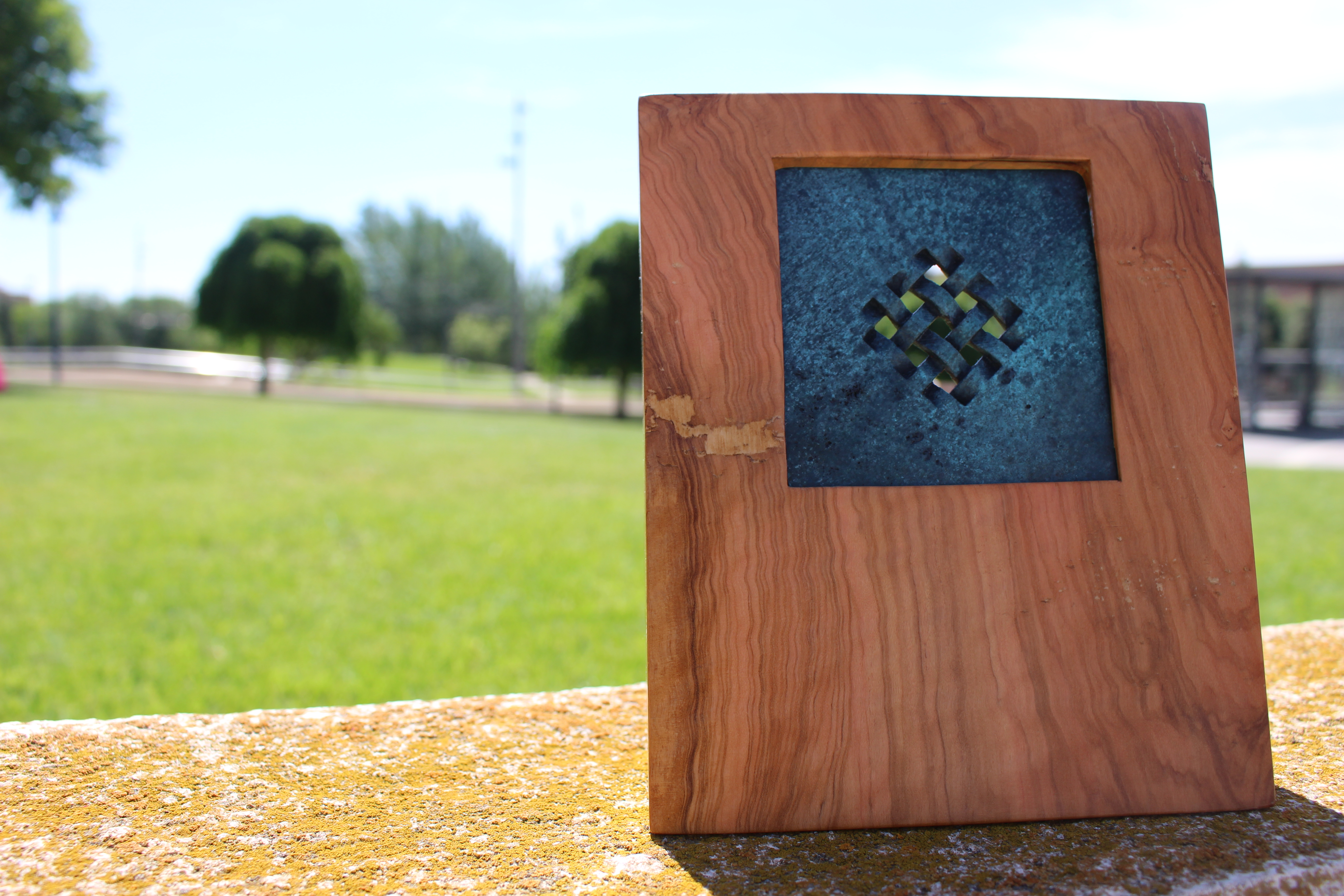 Vives University Network Medal of Honor